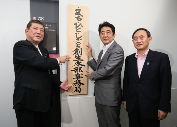 Prime Minister Shinzo Abe attended a ceremony of raising a signboard for the Secretariat of the Headquarters for Overcoming Population Decline and Vitalizing Local Economy in Japan.